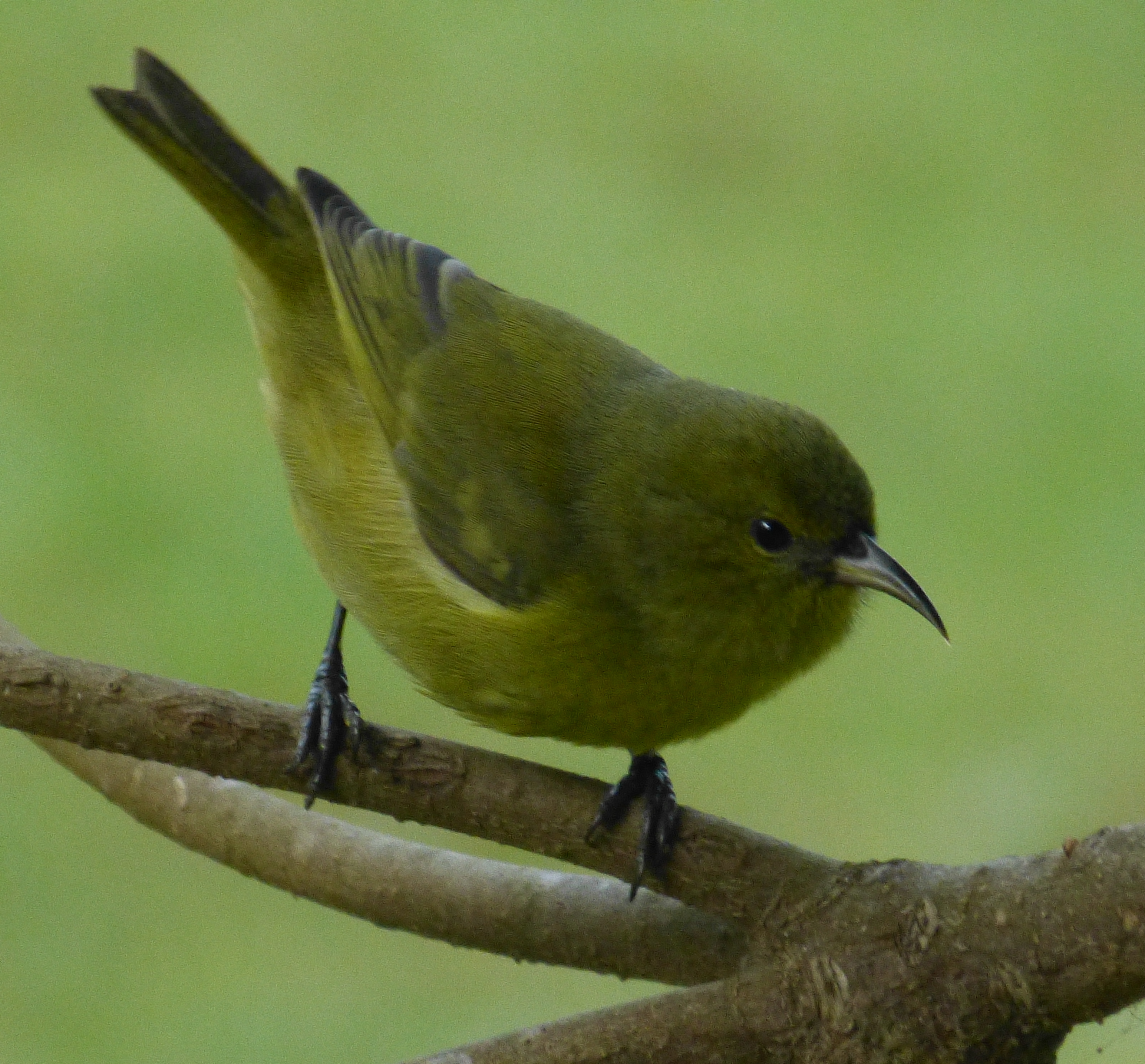 Amakiki, Hemignathus virens, is referred to as "the characteristic bird of the wet ohia forests of all the Hawaiian islands." It can be seen among the bright red flowers of the ohia trees in these areas. This bird is endemic to Hawaii, that is, it is of a type unlike any other that exists elsewhere in the world. It has (at least) one song that it dispenses from a perch and, also, a different song when in flight.